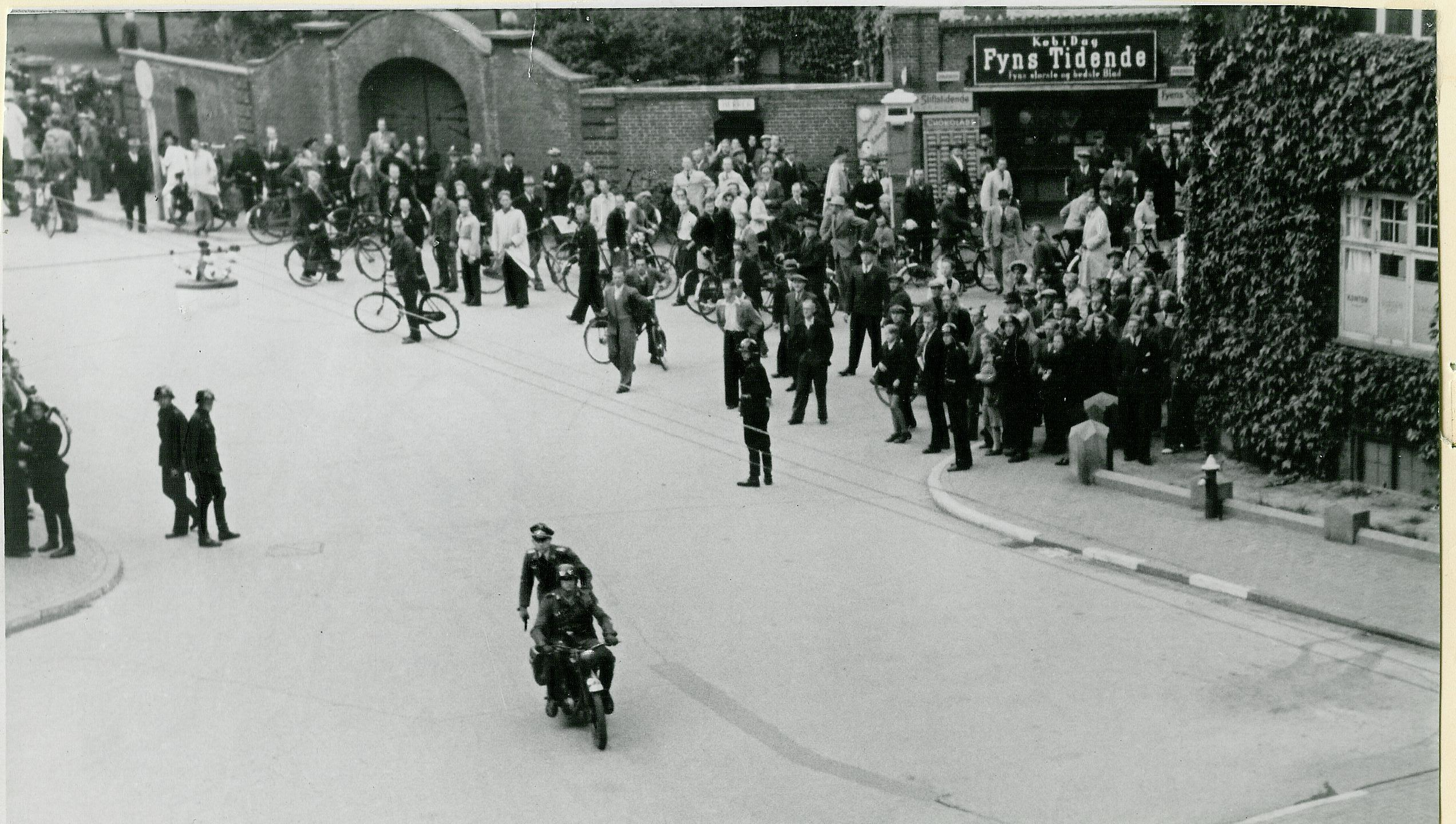 Situation fra Augustoprøret i Asylgade i Odense Sted: Asylgade, Odense Dato: 19. august 1943 Se flere billeder her: Rights: More about The Museum of Danish Resistance (Frihedsmuseet)